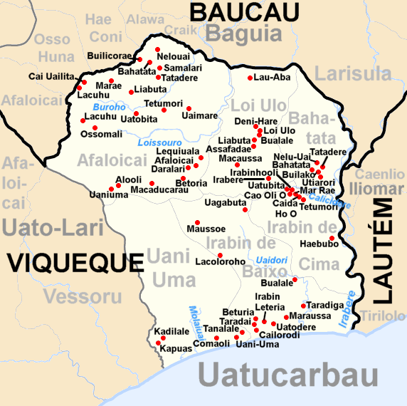 Administrative map of the Uatucarbau subdistrict of East Timor